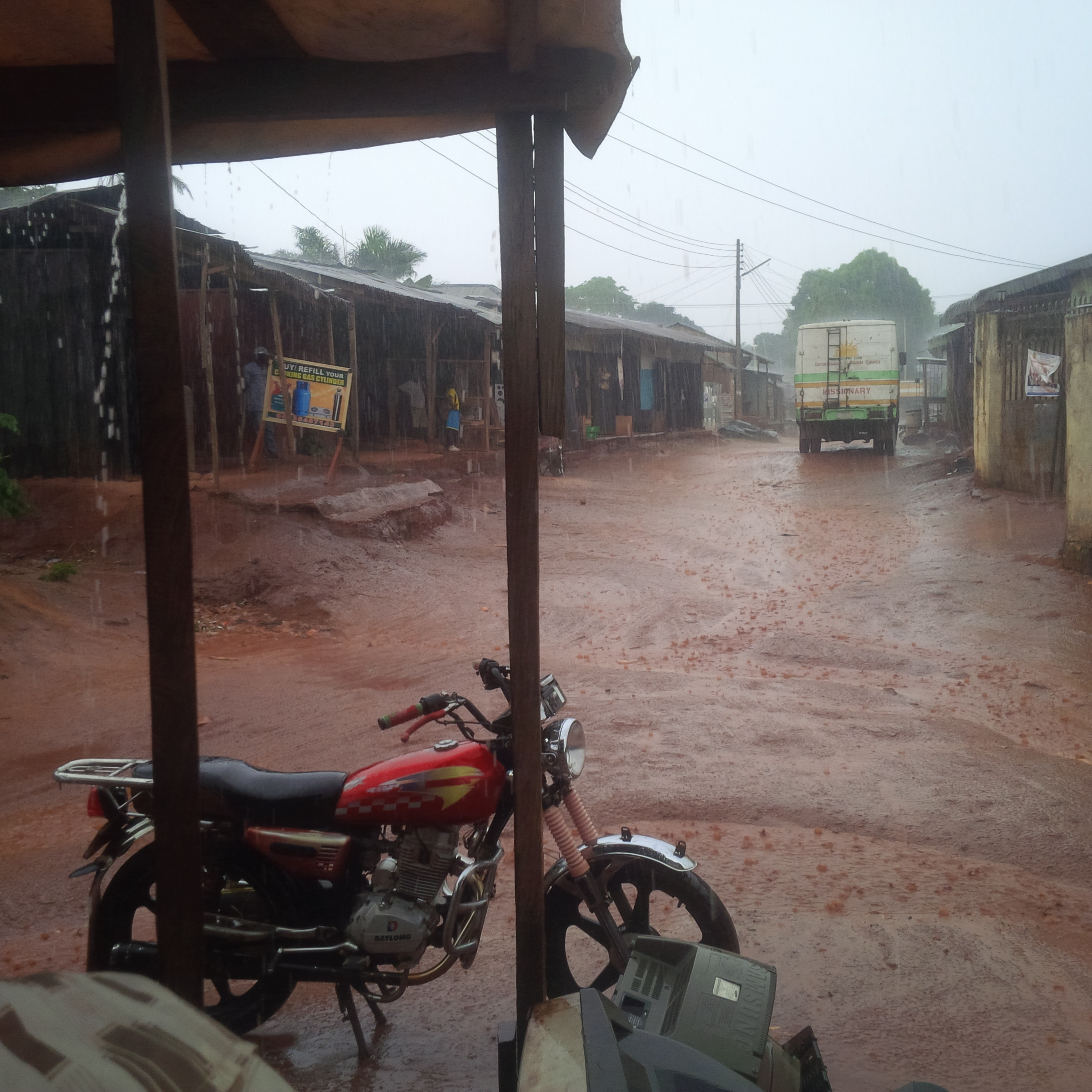 This is an image with the theme "Play" from: Nigeria